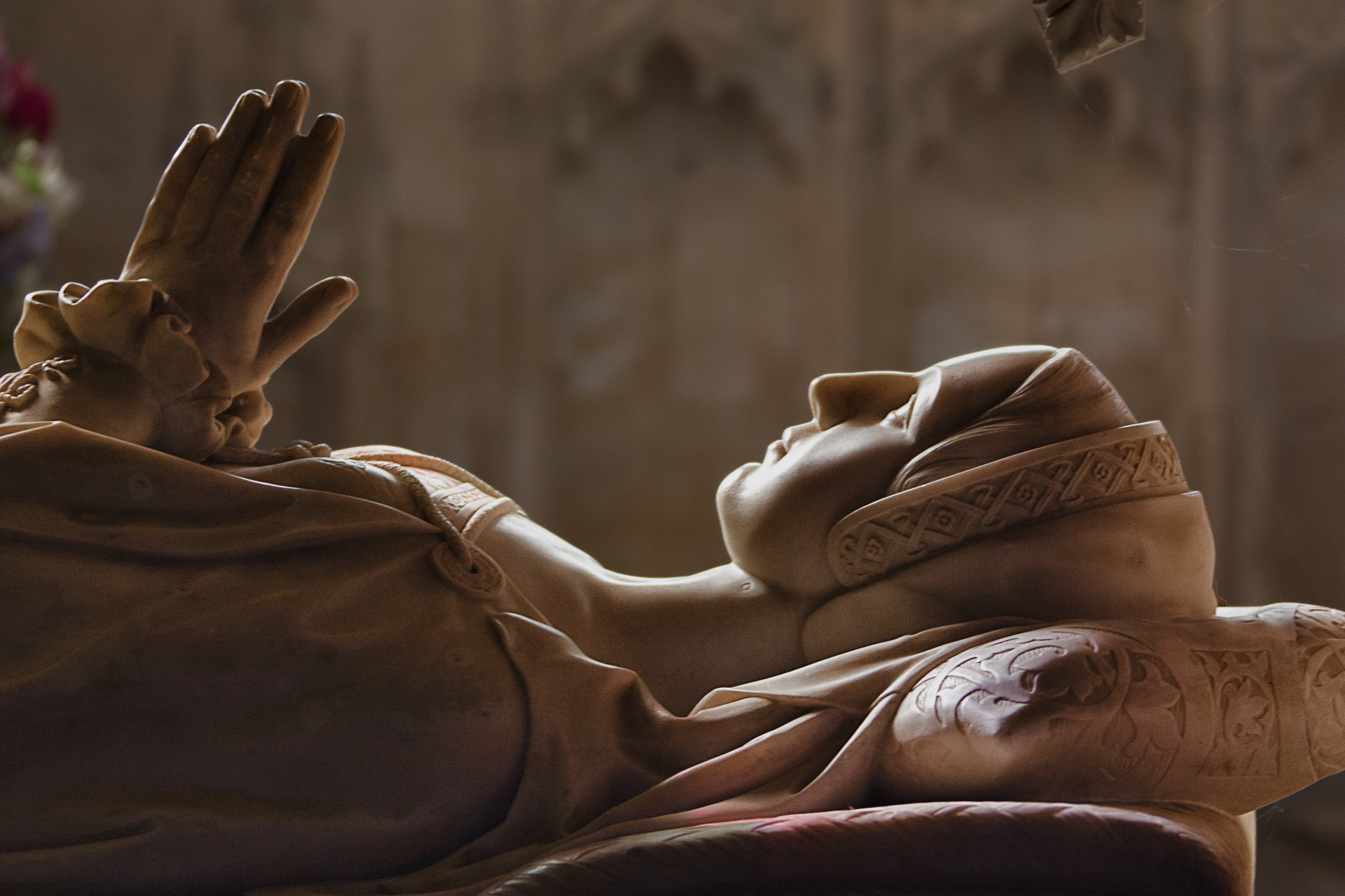 Sudeley Castle Wikidata has entry Q631473 with data related to this item.